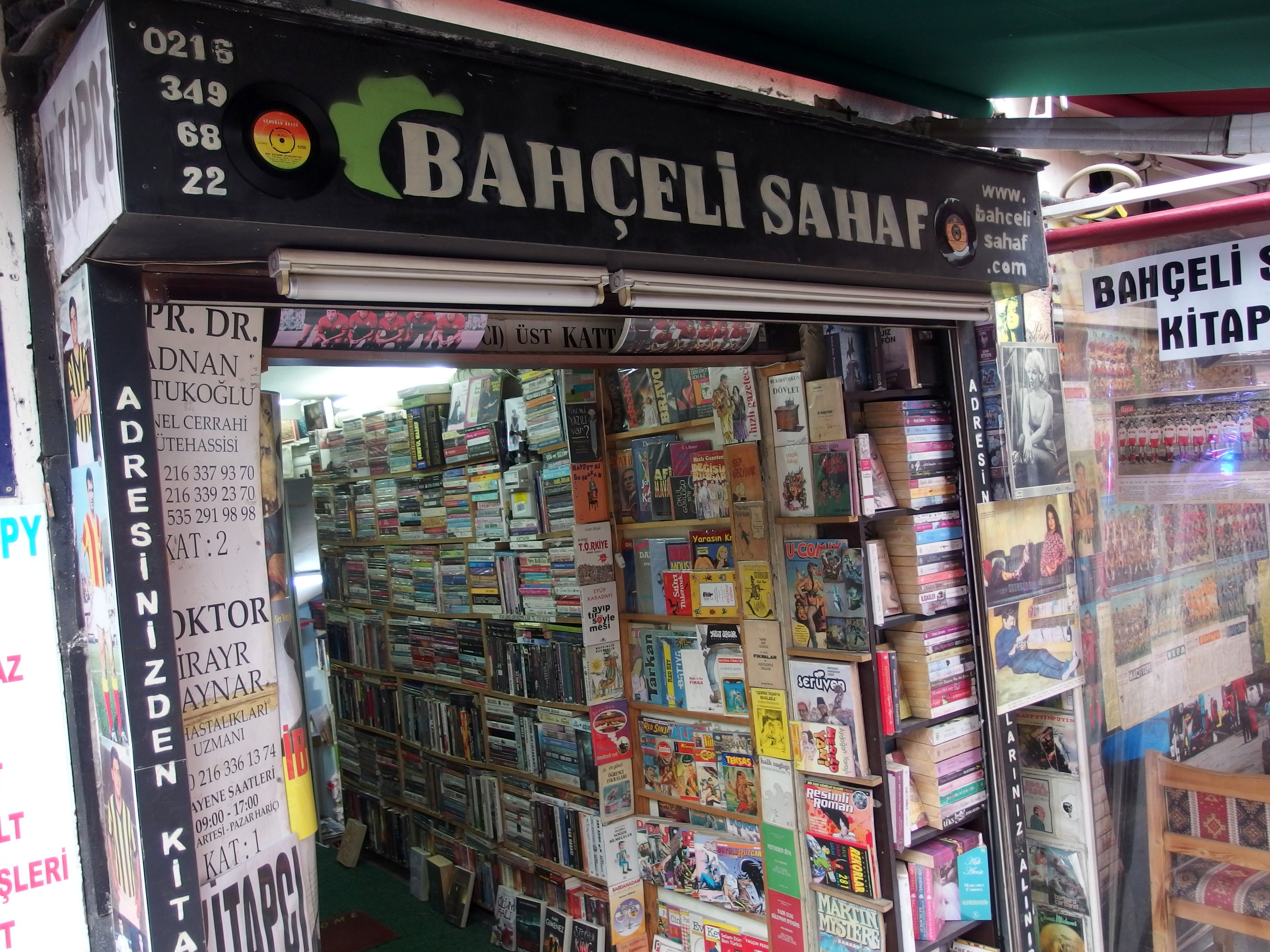 2013-12-07 in Istanbul.